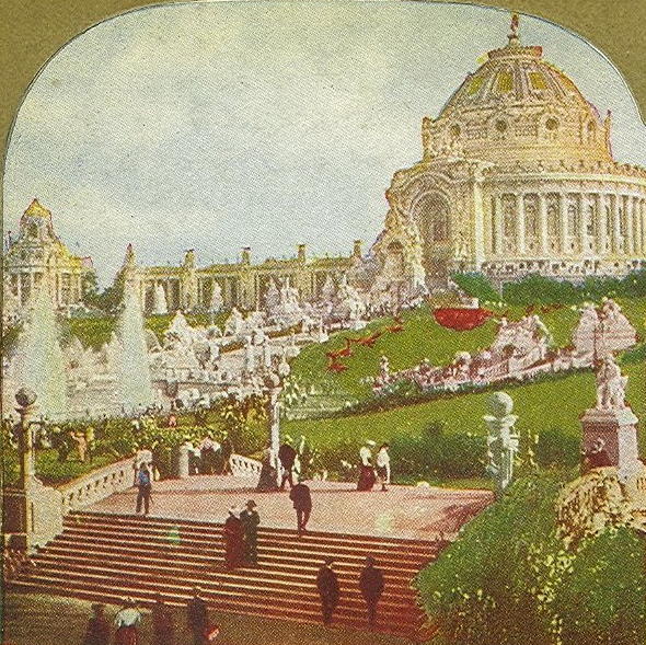 "Festival Hall, World's Fair, St. Louis," stereoptic card (one panel only)